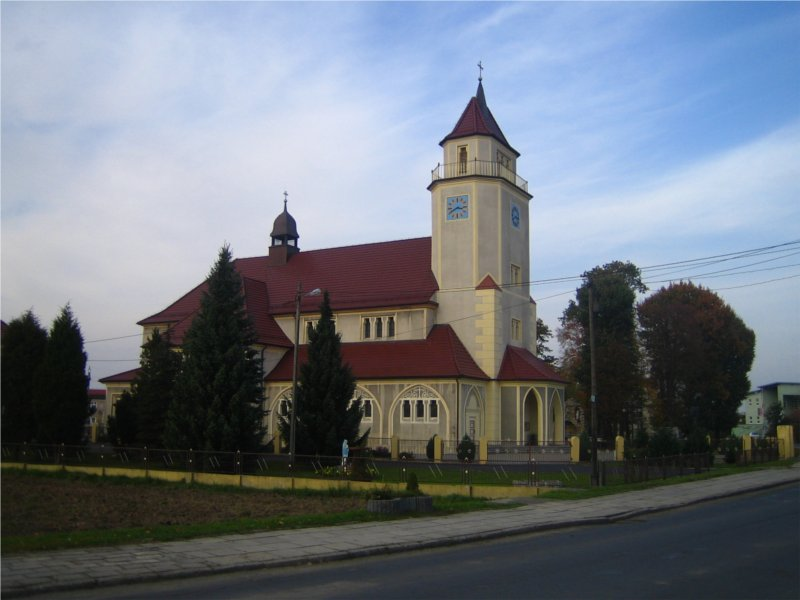 Church in Cisek, Silesia, PL